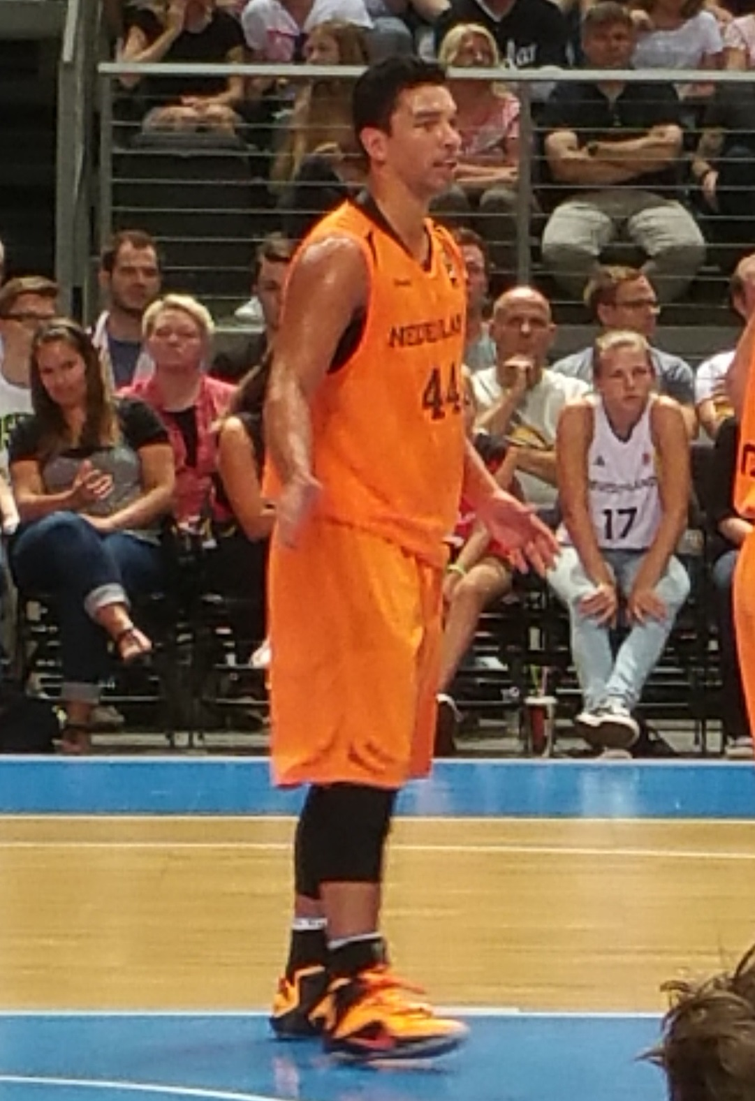 Arvin Slagter during EuroBasket 2017 qualification